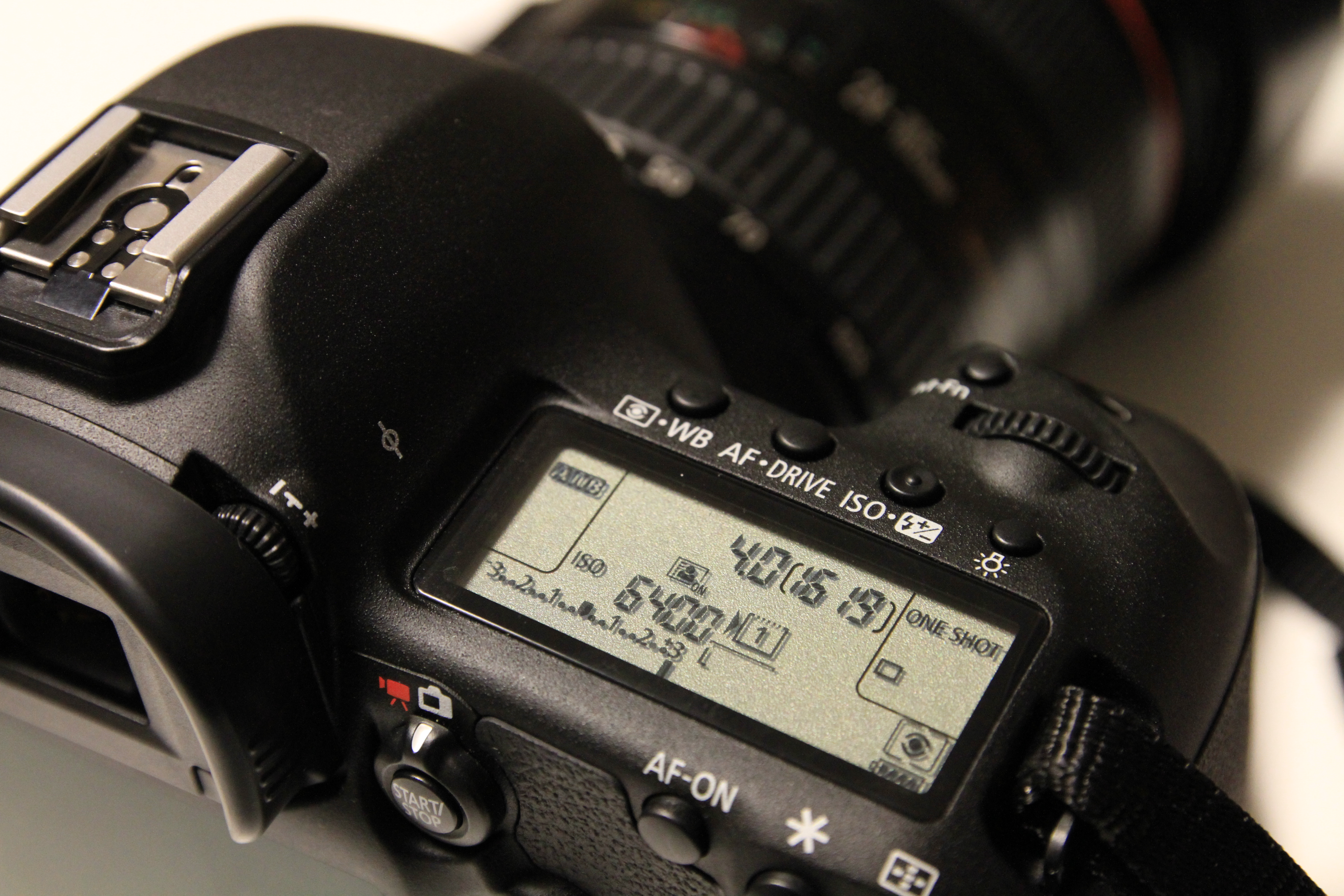 Canon EOS 5D Mark III, top screen